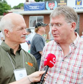 Jack Harris (on right) and Jack Layton